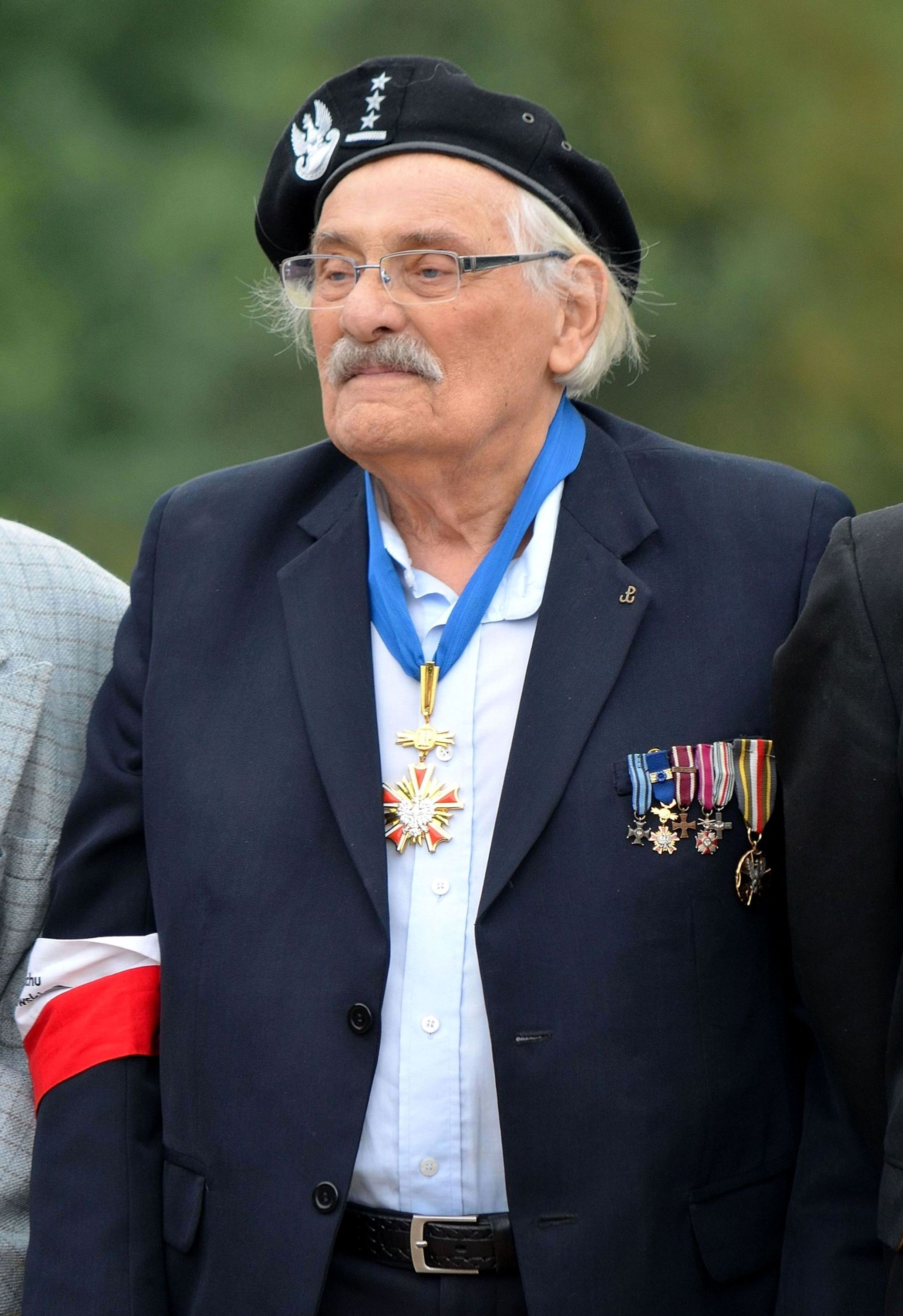 Samuel Willenberg during commemorative ceremony to mark 70th anniversary of the revolt in Treblinka death camp at Treblinka